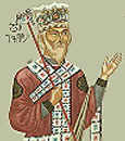 portrait of George III of Georgia, cropped from the file Eglise de Bethanie, peintures murales (2).jpg (Tamar fresco.jpg also is a cropped version, but larger than this one); furthermore the background was digitally smoothed, because due of the high JPG-compression it looked badly, when zoomed to such a near portrait formate